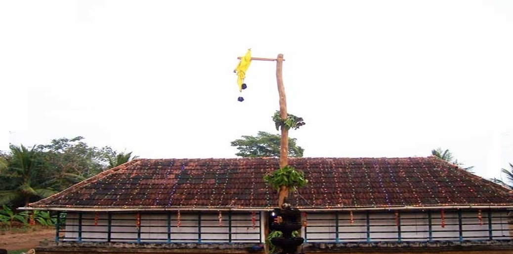 avanoor sreekandhesvaram mahadeva temple